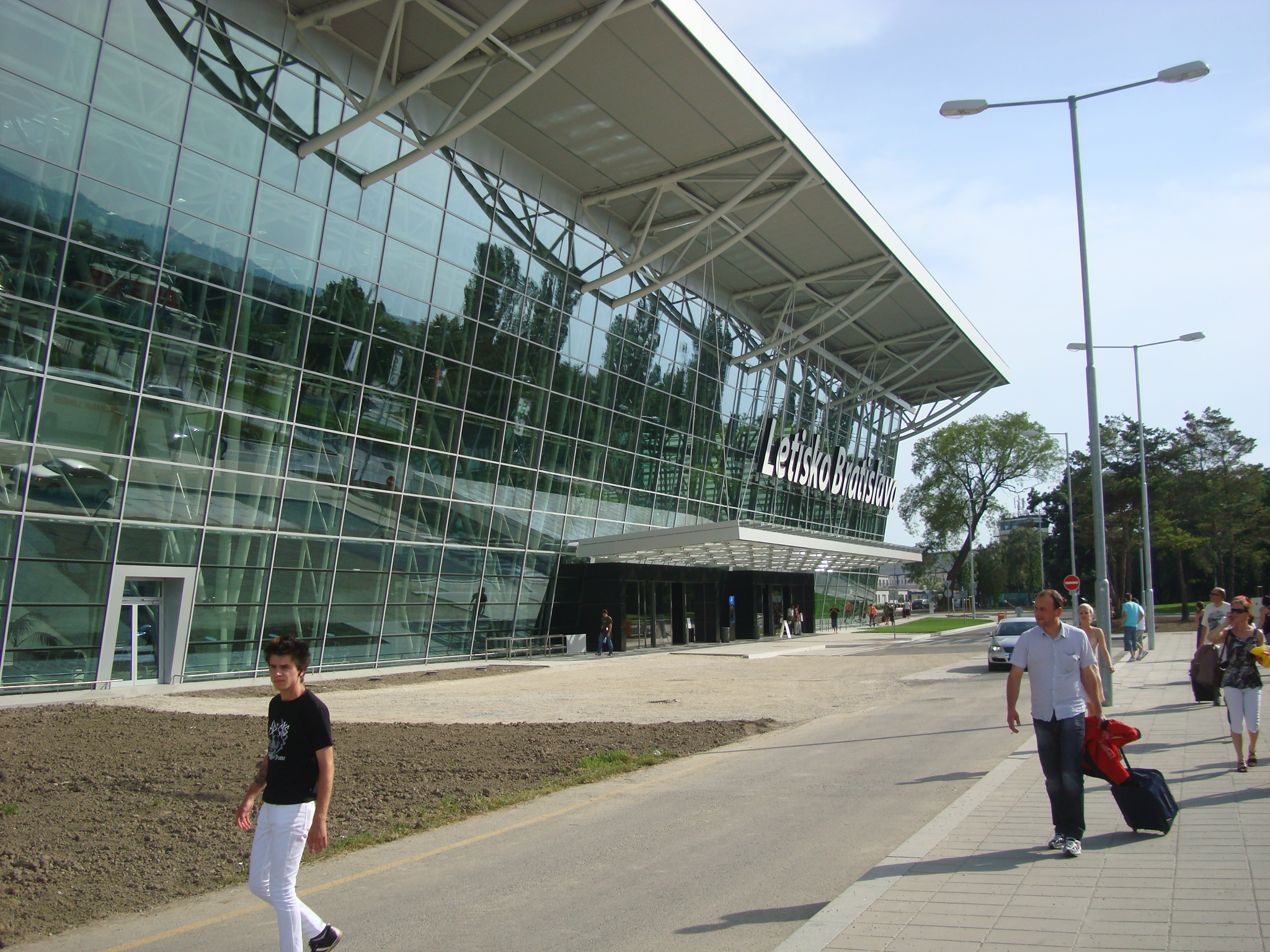 Terminal building at Bratislava Aiport (BTS)